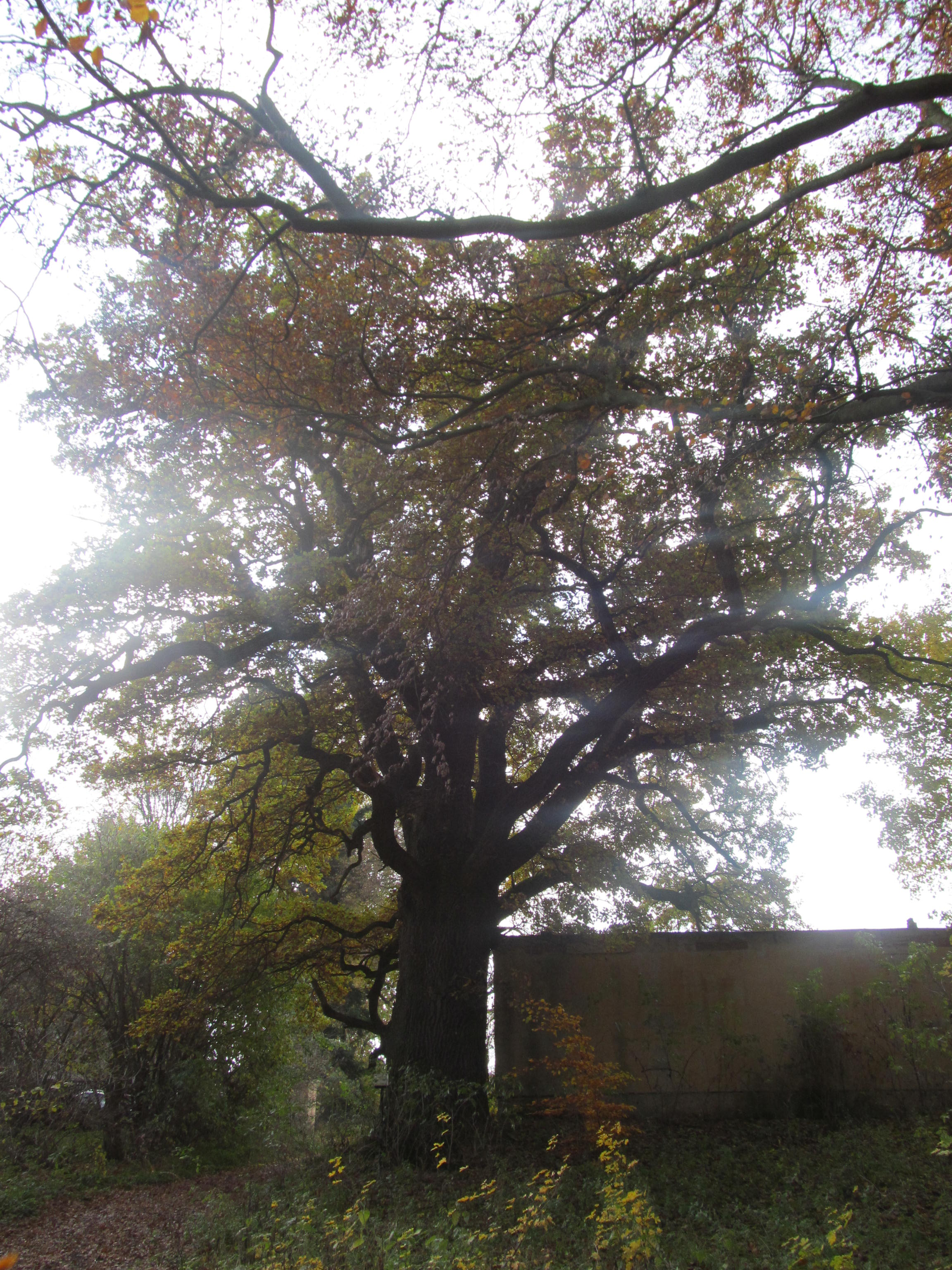 Old oak in Petrohrad near the post office